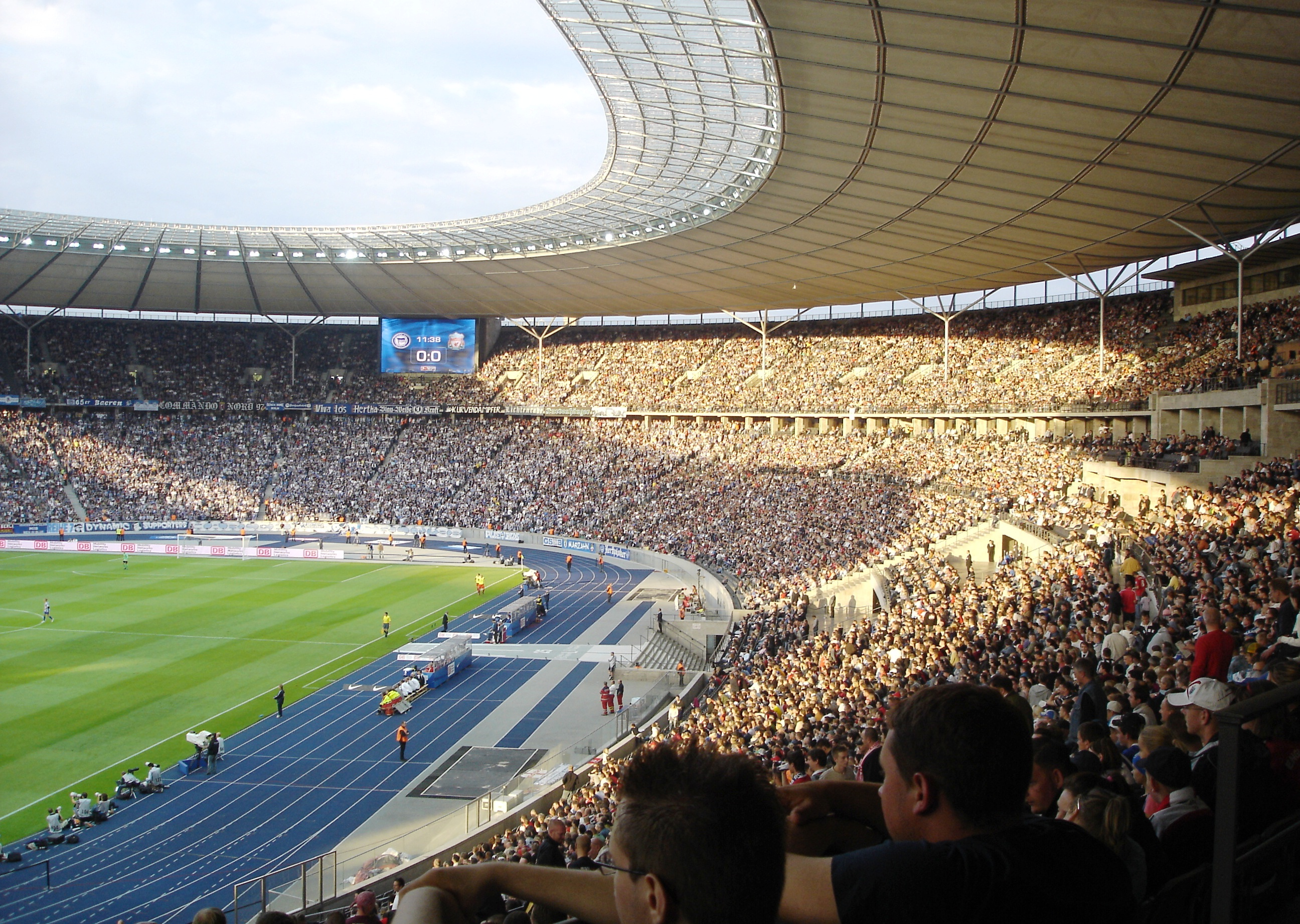 Crowd at Olympic Stadium in Berlin